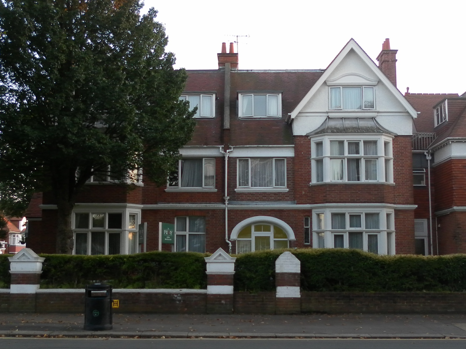 The Priory, New Church Road, Hove, City of Brighton and Hove, England. Originally a house, but now a branch of The Priory psychiatric and rehabilitation hospitals.